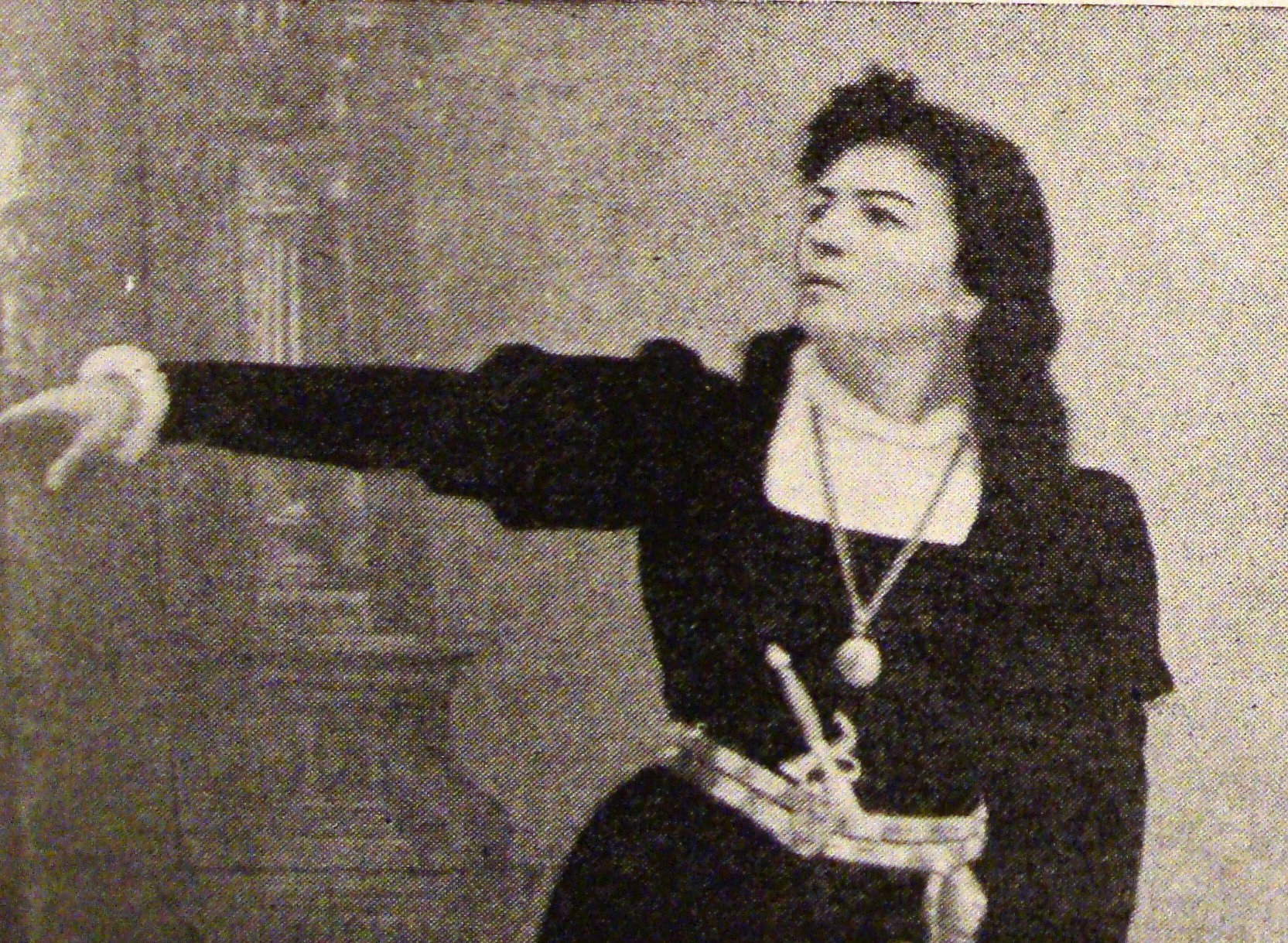 Siranush was the first woman in the world to play the role of Hamlet.